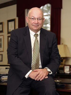 President of Francis Marion University